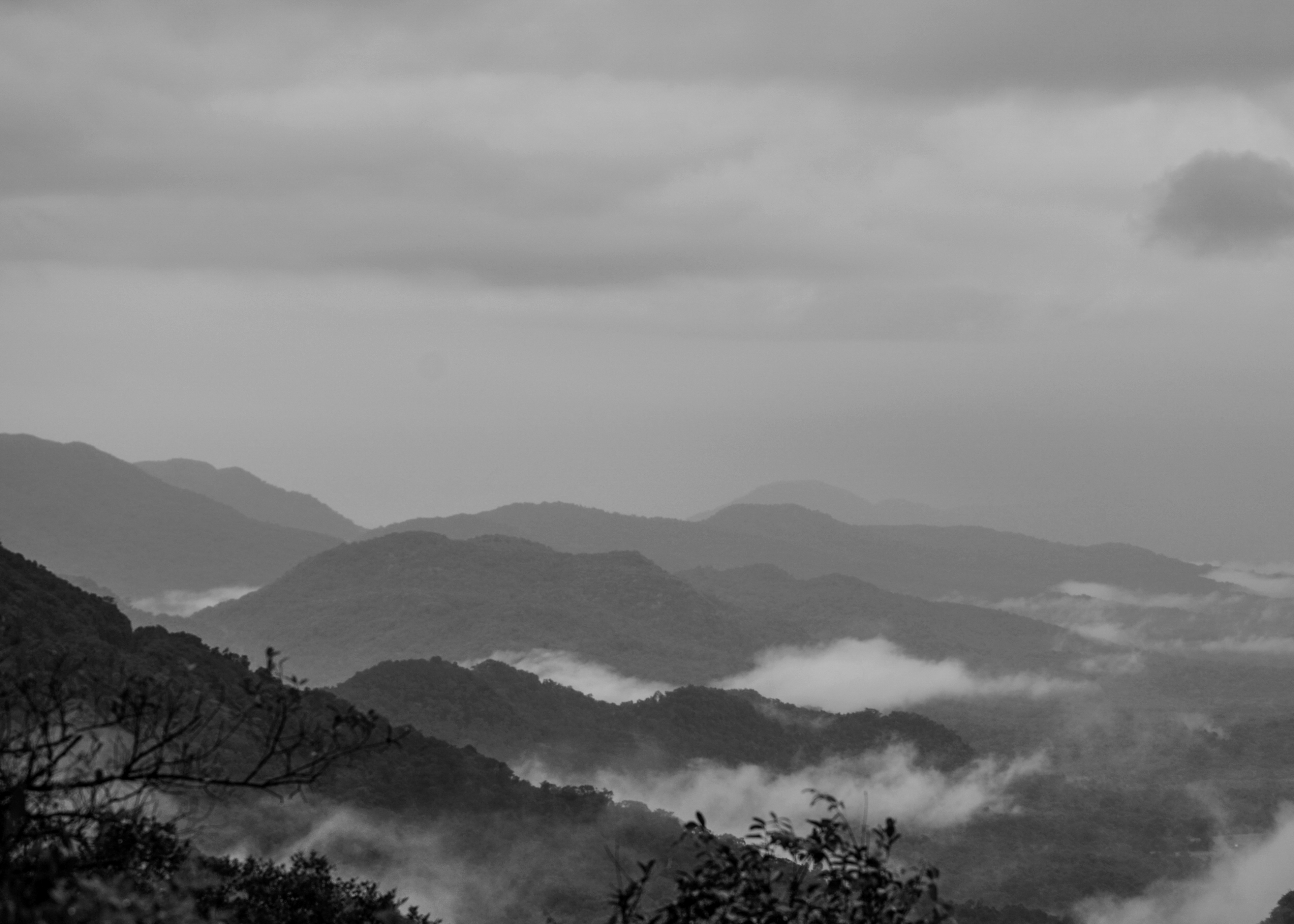 Moist tropical deciduous forest of western ghats as seen from the castle rock